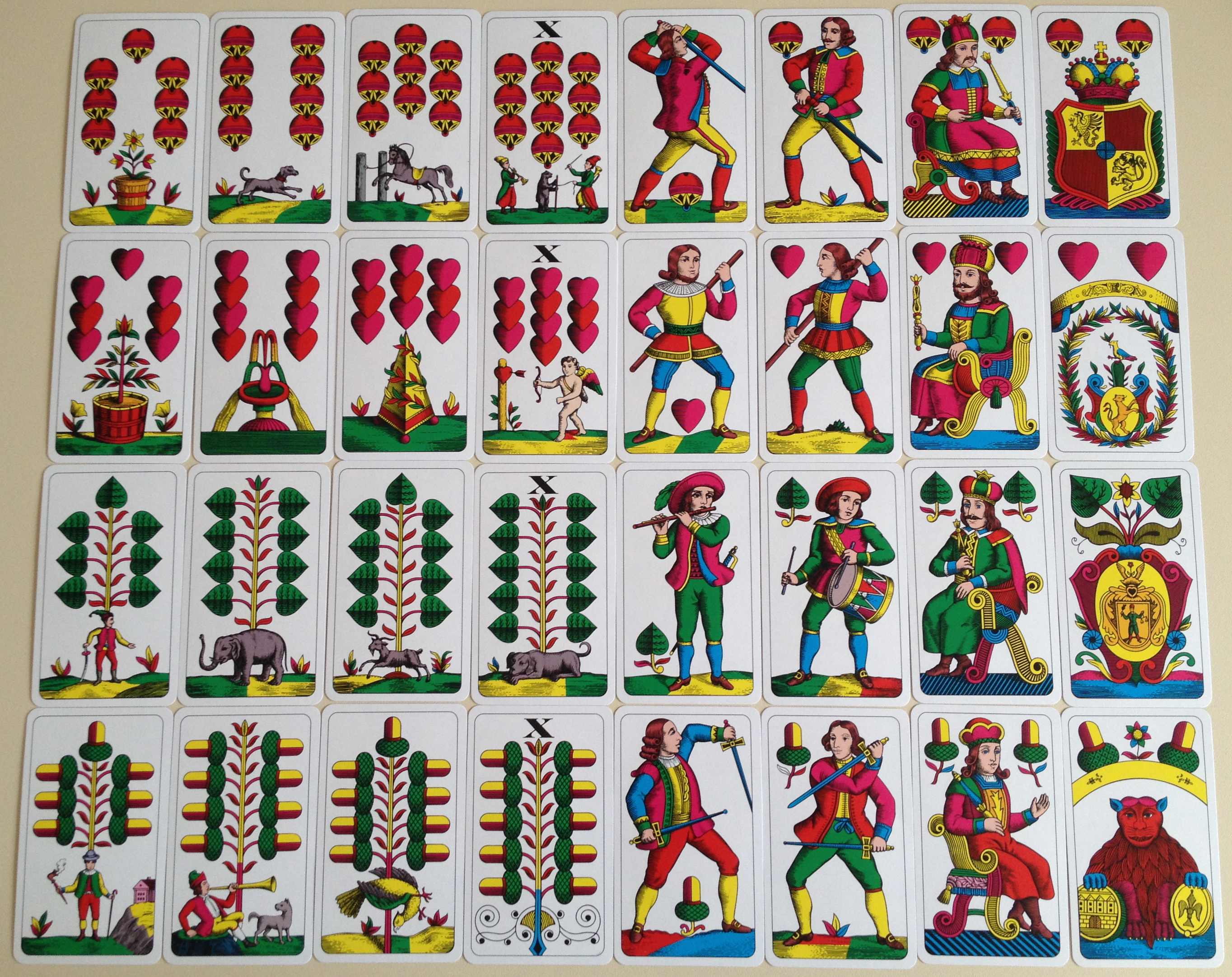 The Bohemian or Prague pattern is a derivative of the Old Bavarian pattern. Unlike other descendants of the Old Bavarian pattern, it does not contain 6s as Jass is not popular in the Czech Republic and Tarok is played with different cards. It is used to play Mariáš and Sedma.